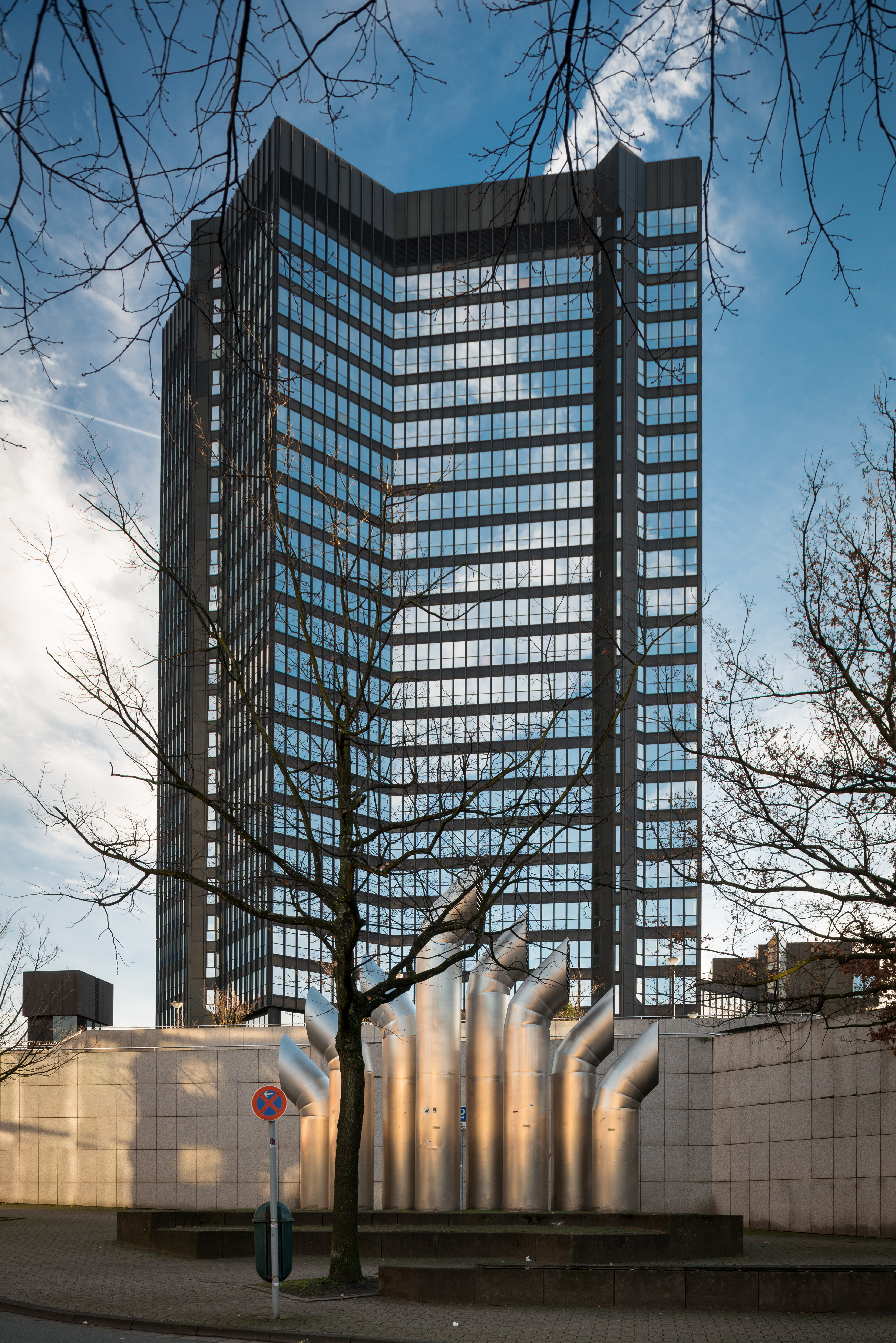 Townhall of Essen in the afternoon